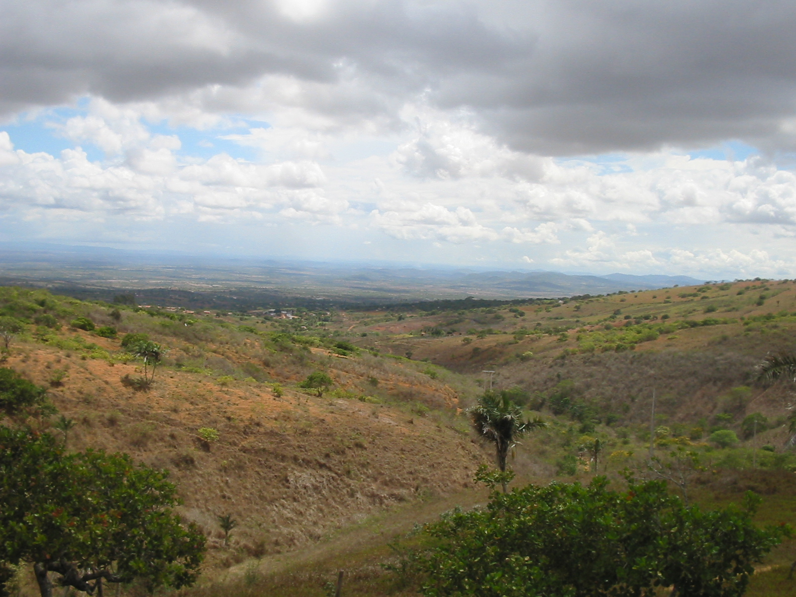 General view of Riacho das Almas (Pernambuco), Brazil.